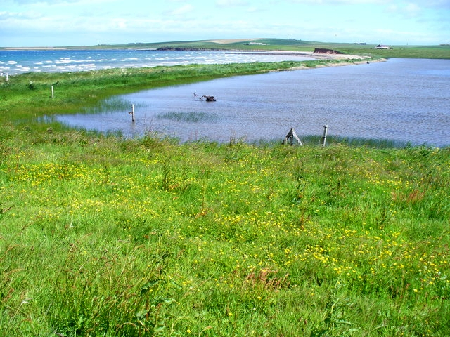 Lairo Water This water on the north coast of Shapinsay is separated from Veantrow Bay by an ayre. Orcadians use the name ayre for the storm beaches dividing sea from lakes.